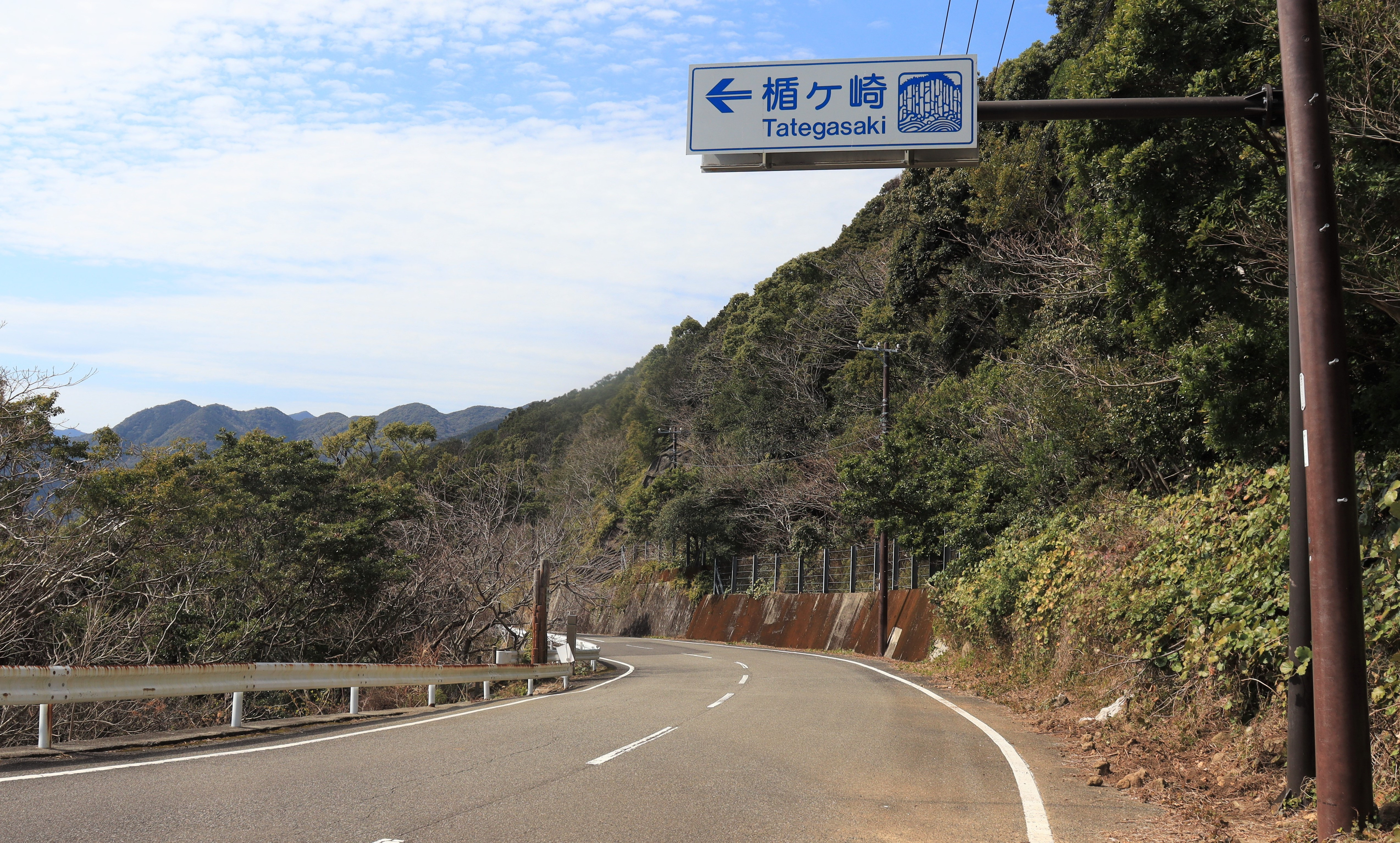 Entarance for Tategasaki on Route 311, Hobo, Kumano, Mie Prefecture Japan.